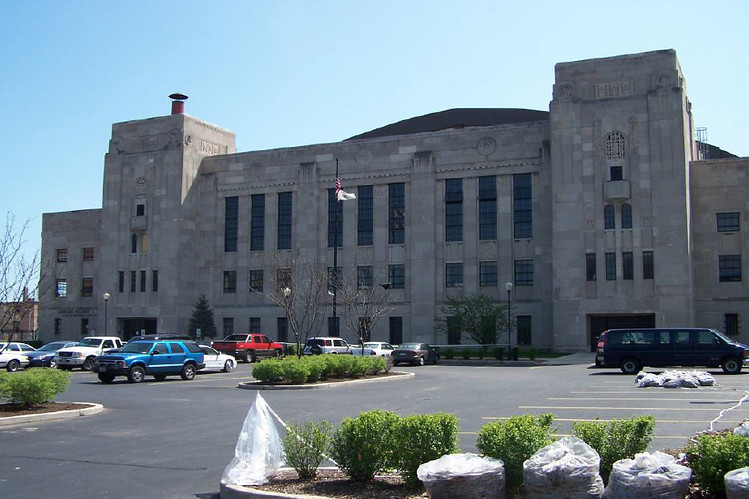 National Guard Armory, Chicago North